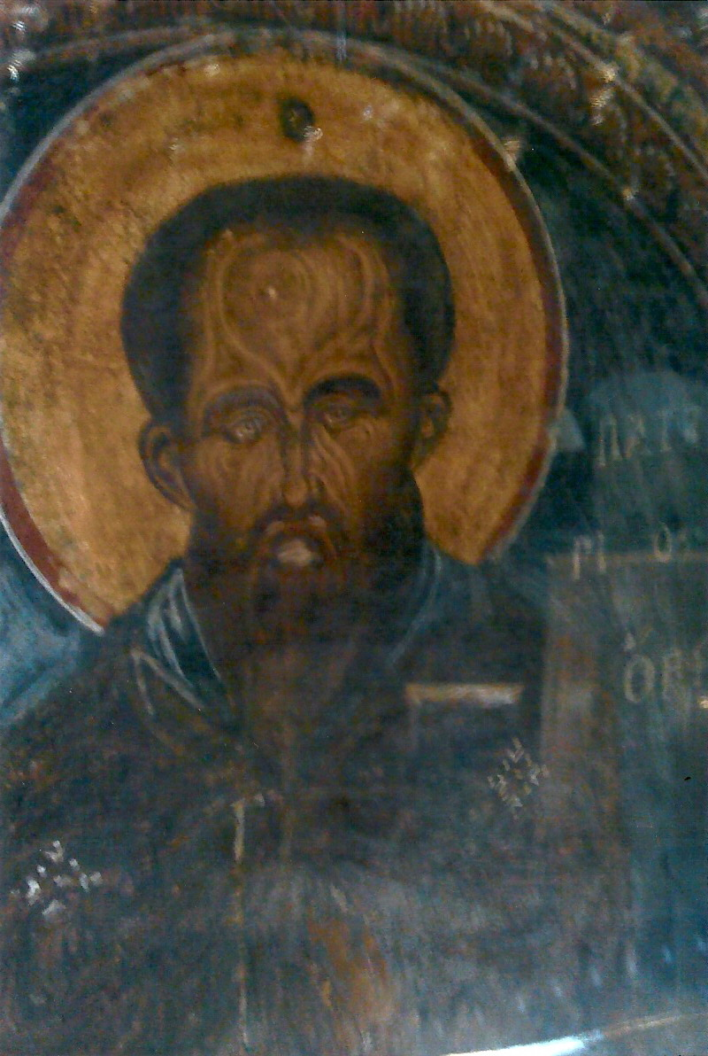 Icon of Saint Patapios found in a cave in Loutraki, Greece